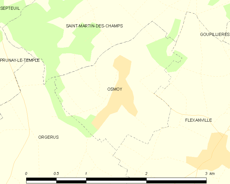 Map of French municipality Osmoy